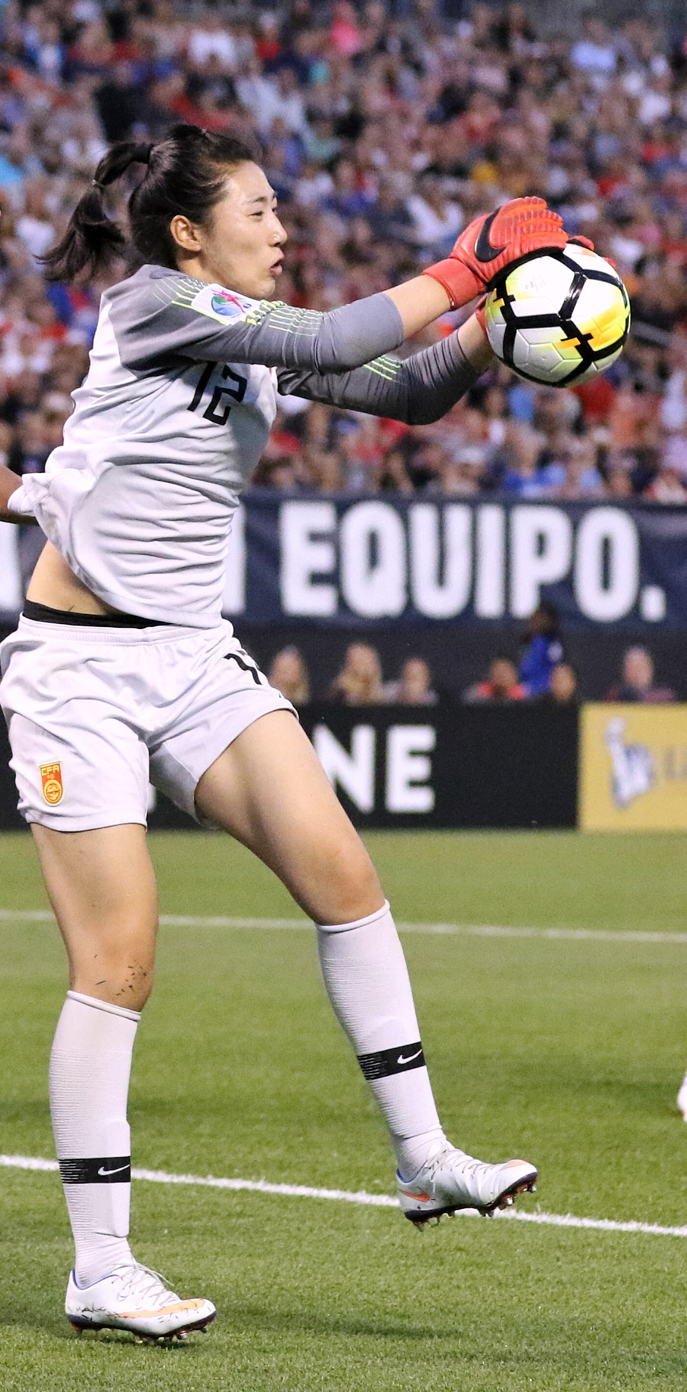 Peng Shimeng representing China in a match against the United States on June 12, 2018.